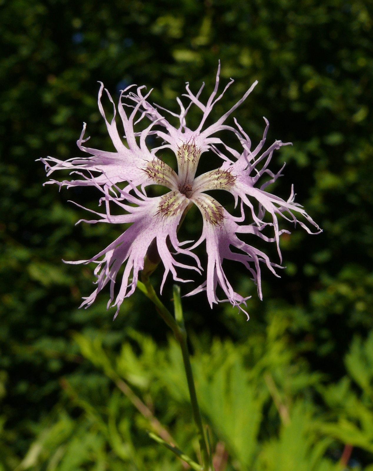 Dianthus superbus, Hohenlohe, Germany